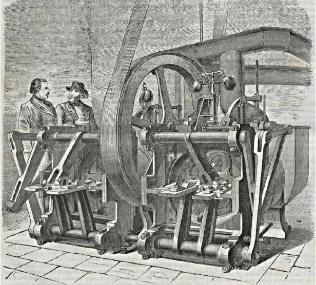 Heat engine, 1861